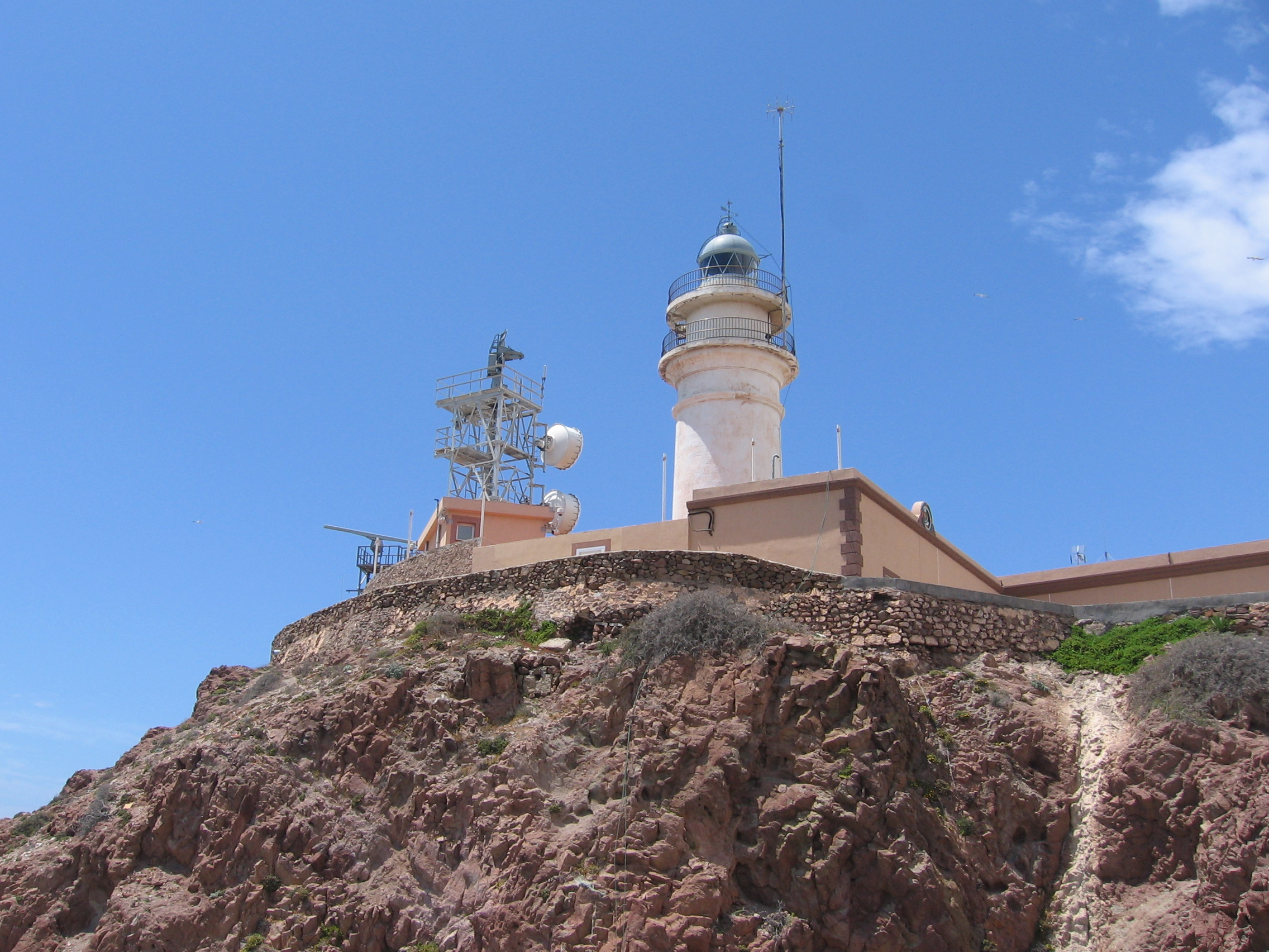 Faro del Cabo de Gata